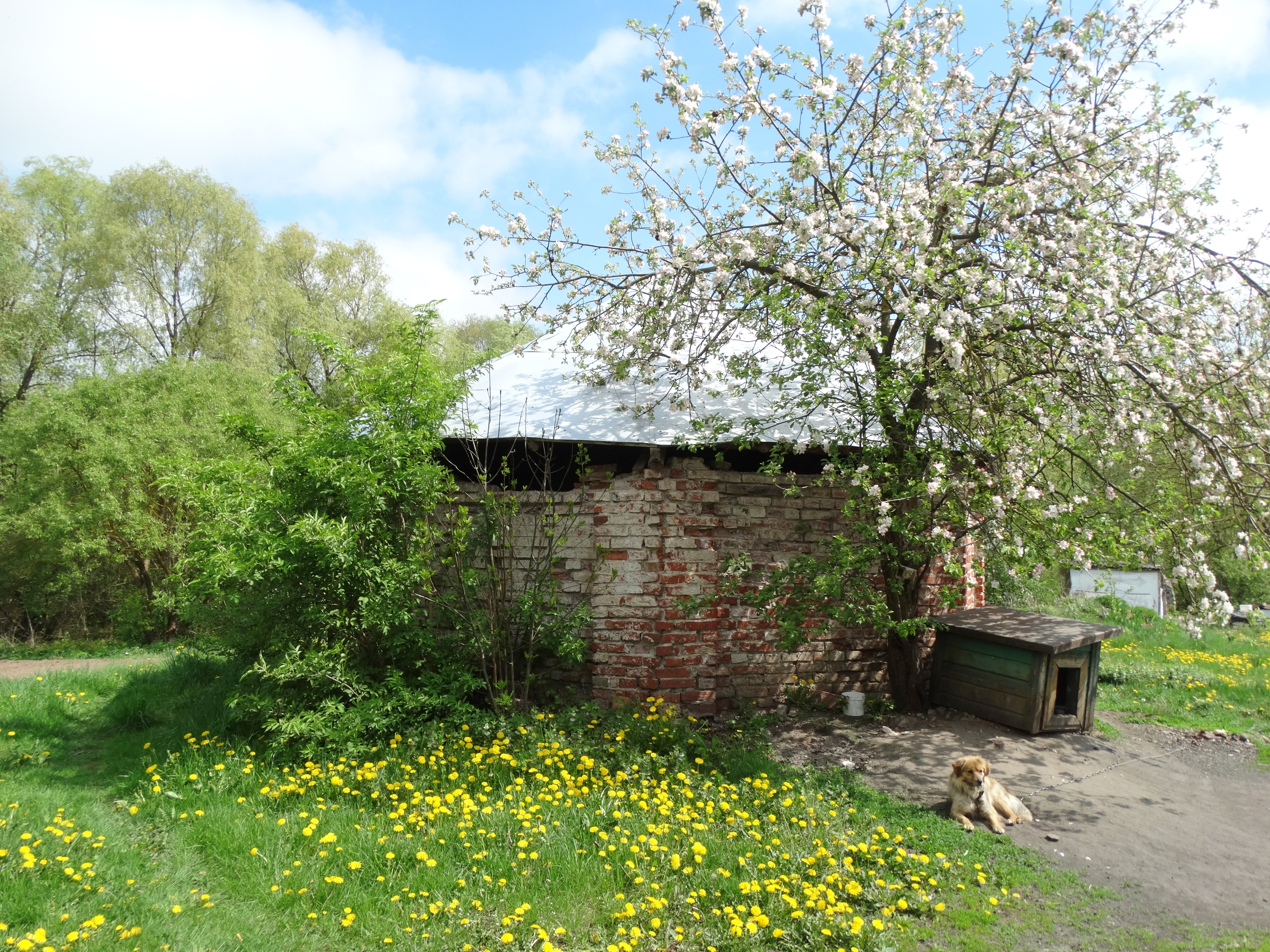 Former Swedish Chapel, Žeimelis, Lithuania